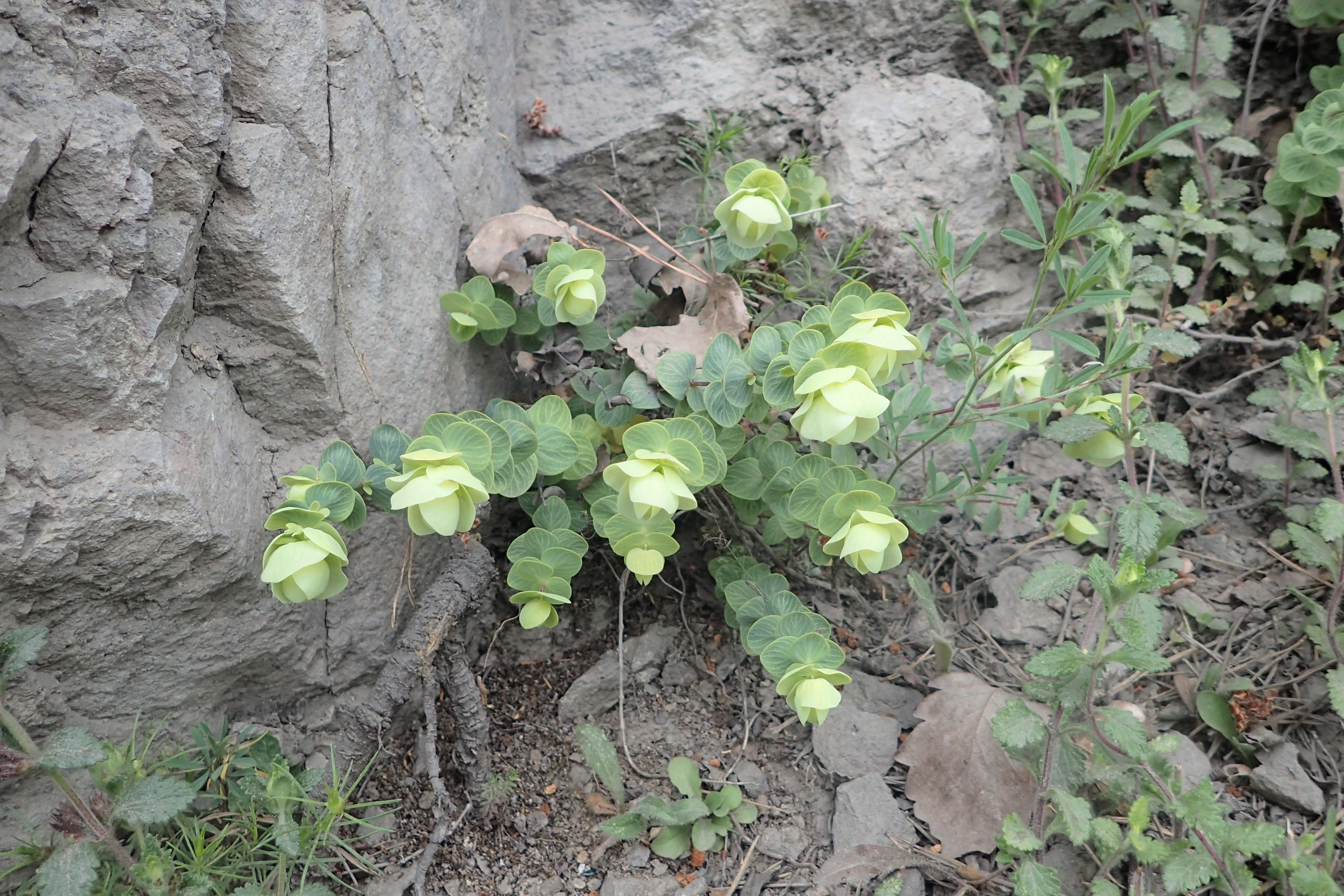 Origanum rotundifolium in Khulo (Georgia)